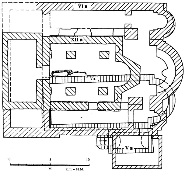 Basis of the archeological site Morodvis near Kocani, Republic of Macedonia (better resolution)